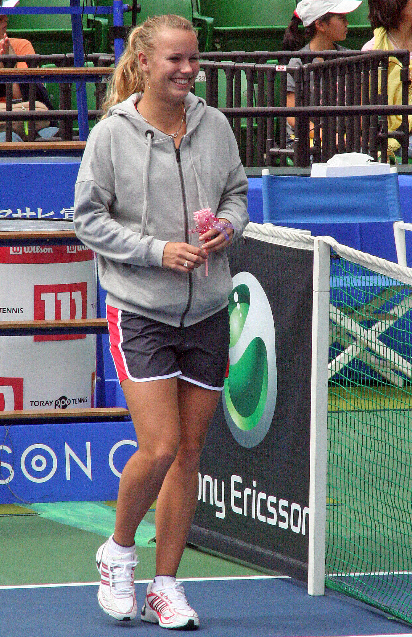 Danish Tennis player Caroline Wozniacki during the retirement ceremony for her colleague Ai Sugiyama on the opening day of the Toray Pan Pacific Open 2009 in Tokyo.